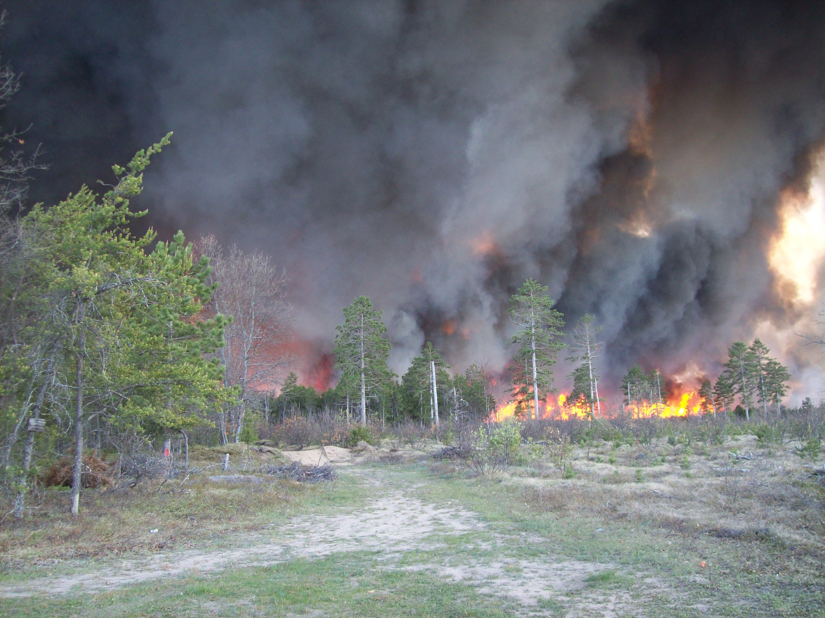 Meridian Fire of 2010 - Huron-Manistee National Forest